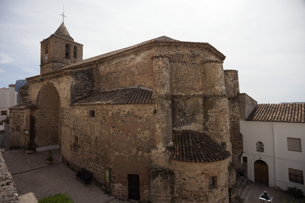 Iglesia parroquial Nuestra Señora del Collado; Segura de la Sierra, Andalucía, Jaén, Spain; ; ref: PM_091697_E_Segura_de_la_Sierra; ; Photographer: Paul M.R. Maeyaert; © Paul M.R. Maeyaert; ; Cultural heritage; Europeana; Europe/Spain/Segura de la Sierra